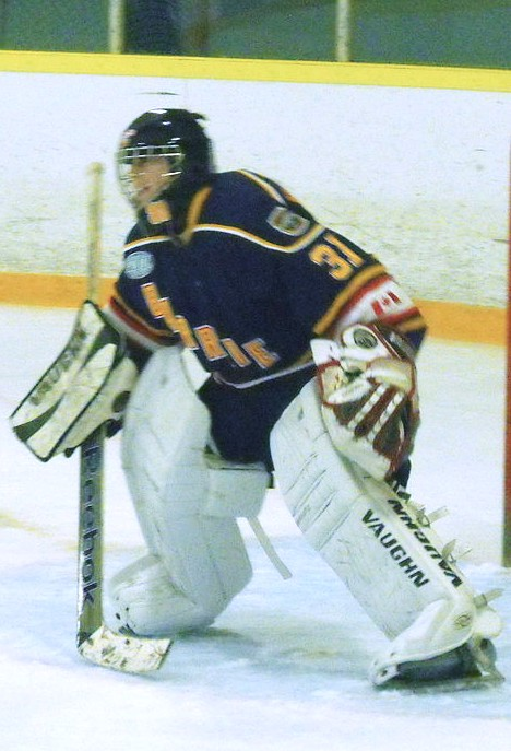 Taken by Devan Mighton during 2013-14 PWHL season.